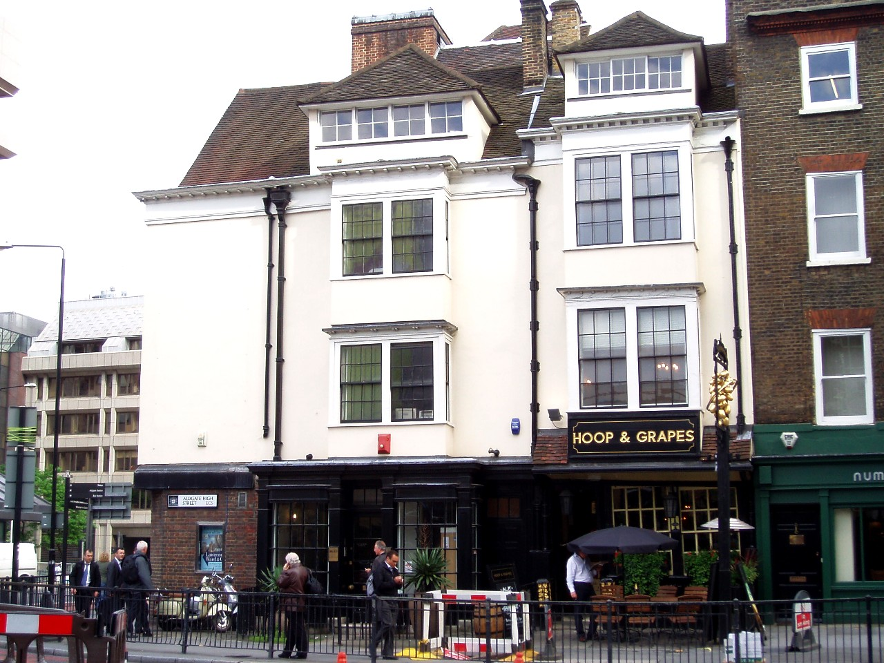 Pub by Aldgate bus station, opposite the tube. It's in a very old building, though you wouldn't know it from looking, but it's all timber beams inside. Quite nice, really. Address: 47 Aldgate High Street. Owner: Mitchells and Butlers [Nicholson's] (website); Bass (former). Links: Randomness Guide to London Fancyapint Beer in the Evening